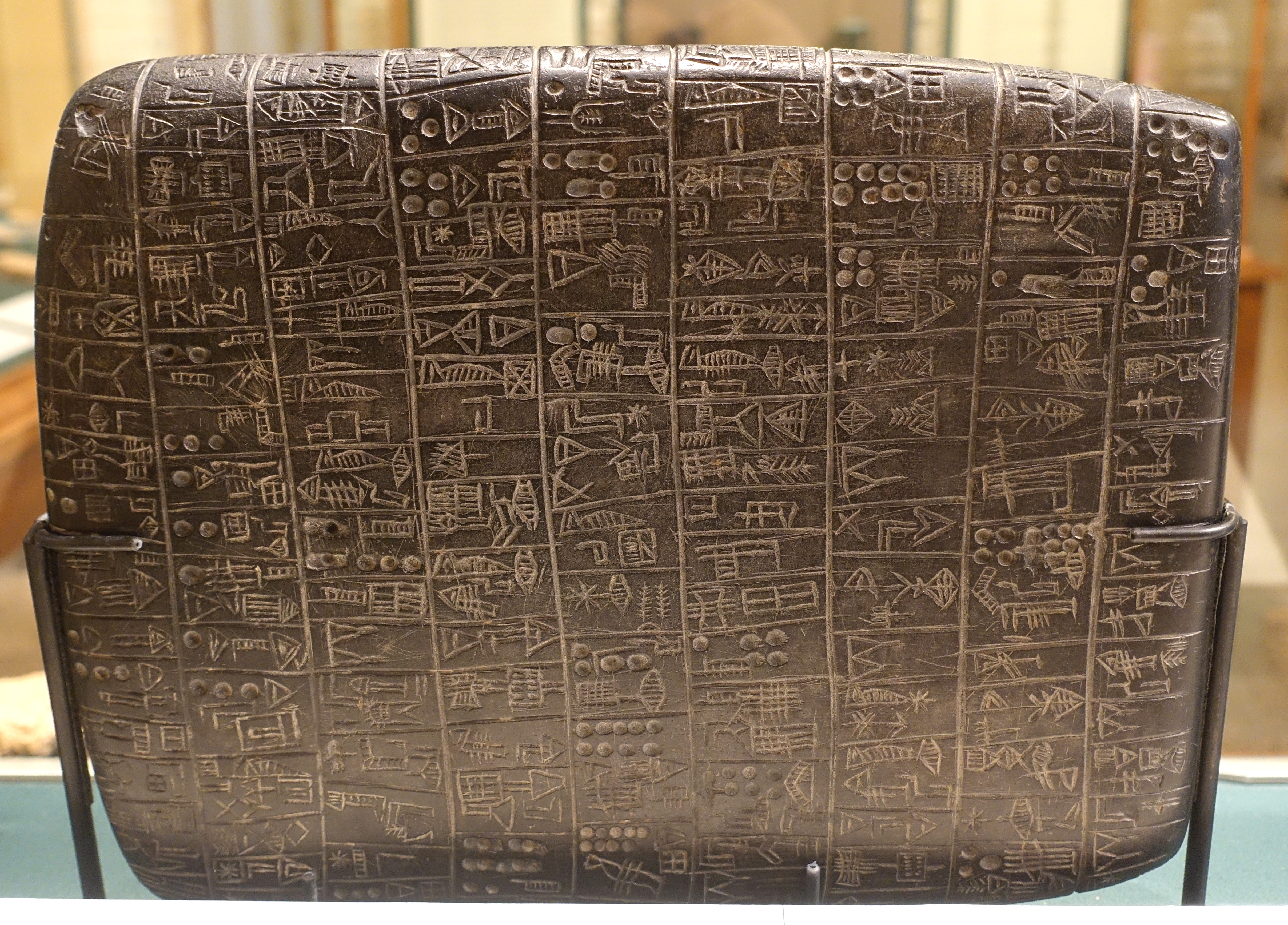 Exhibit in the Oriental Institute Museum, University of Chicago, Chicago, Illinois, USA. This work is old enough so that it is in the public domain.